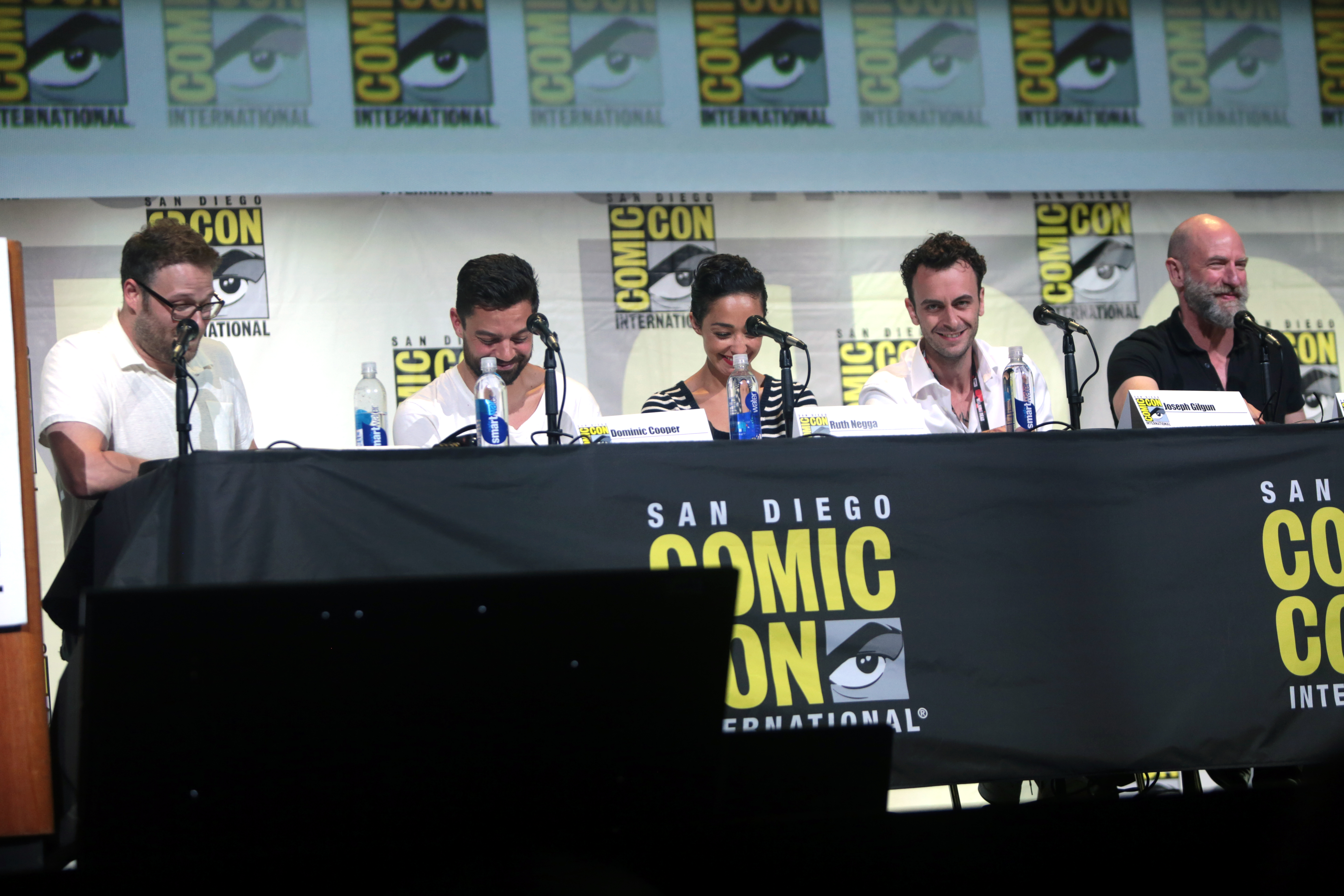 Seth Rogen, Dominic Cooper, Ruth Negga, Joseph Gilgun and Graham McTavish speaking at the 2016 San Diego Comic Con International, for "Preacher", at the San Diego Convention Center in San Diego, California.